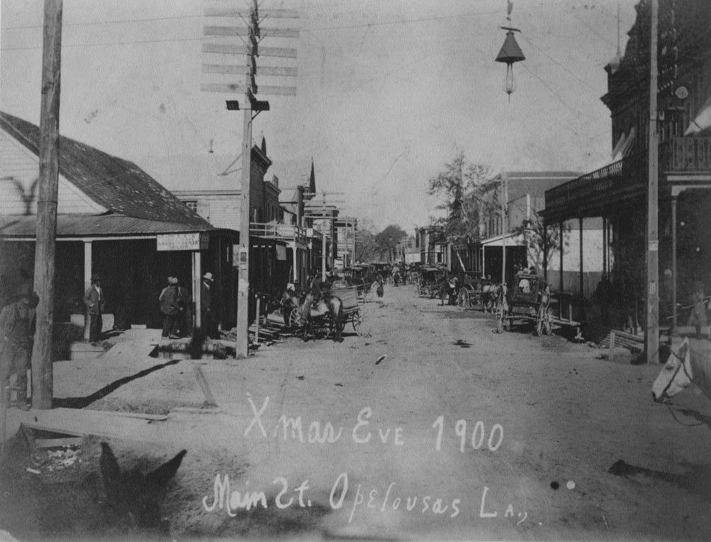 Main Street, Opelousas, Louisiana, Xmas Eve, 1900. Photograph showing rows of buildings with numerous horse drawn vehicles, some pedestrians.